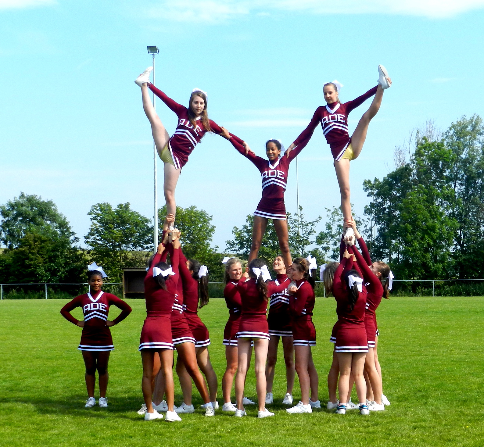 The Antwerp Diamond Elite Cheerleaders performing a heelstretch pyramid